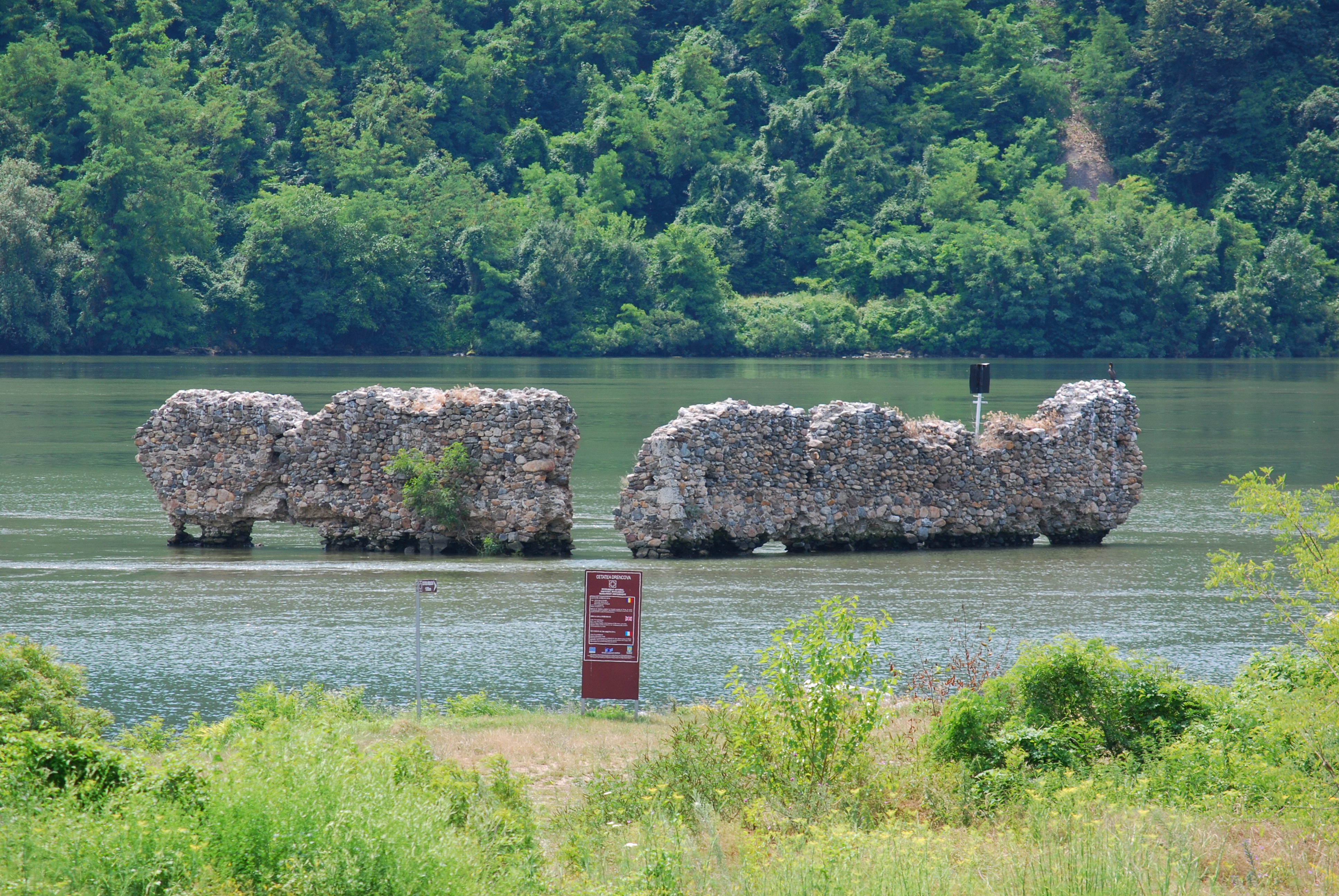 Archeological site from Drencova, Caraş-Severin County, RomaniaRomână: Situl arheologic de la Drencova, judeţul Caraş-Severin, România